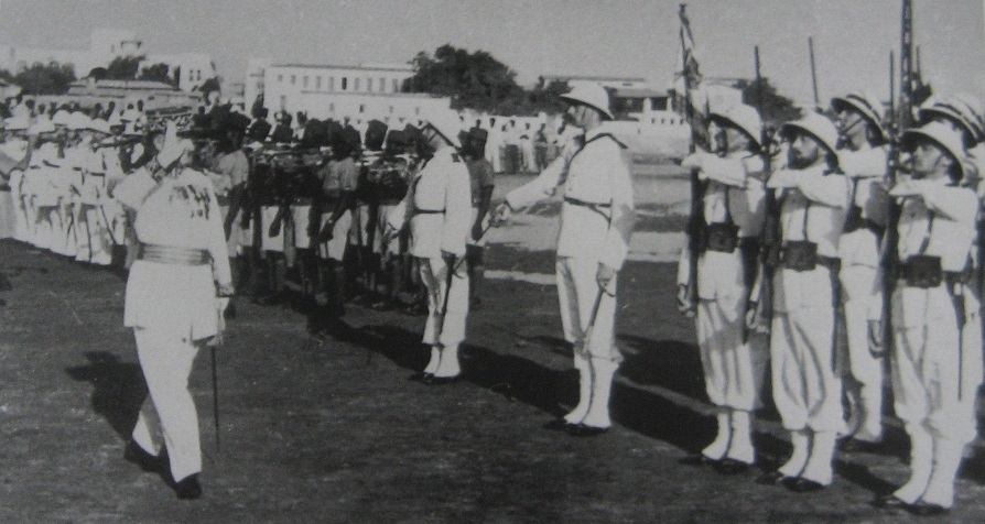 General Paul Le Gentilhomme, commander-in-chief of French troops in French Somaliland, reviewing military units In Djibouti in 1939 or 1940.